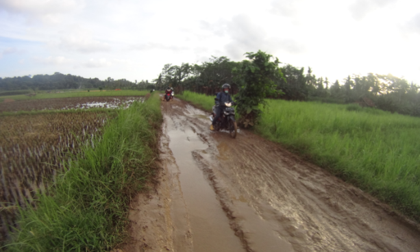 the road to Sendiki Beach